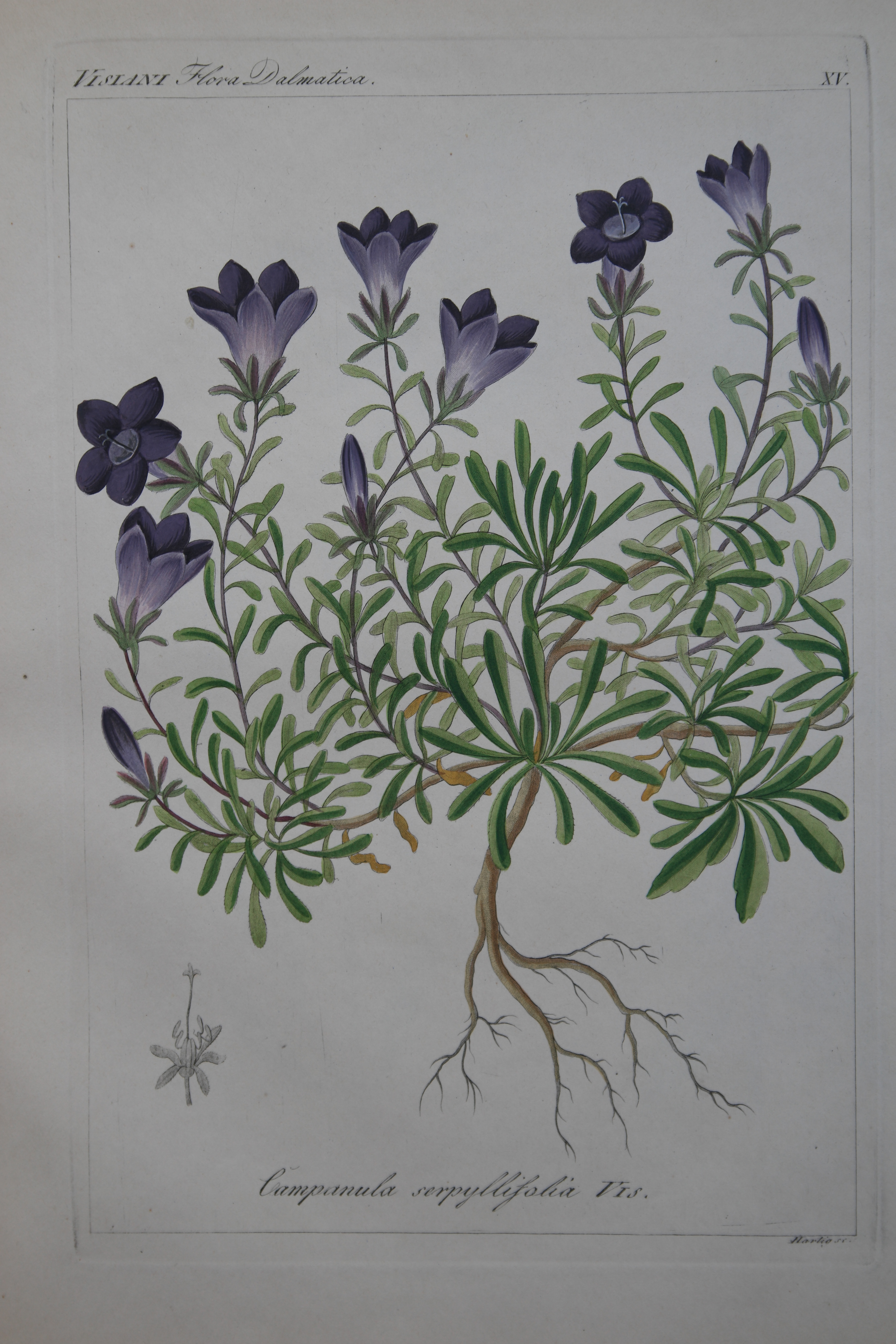 Lithography Flora Dalmatica 1847 Edraianthus serpyllifolius serpyllifolia